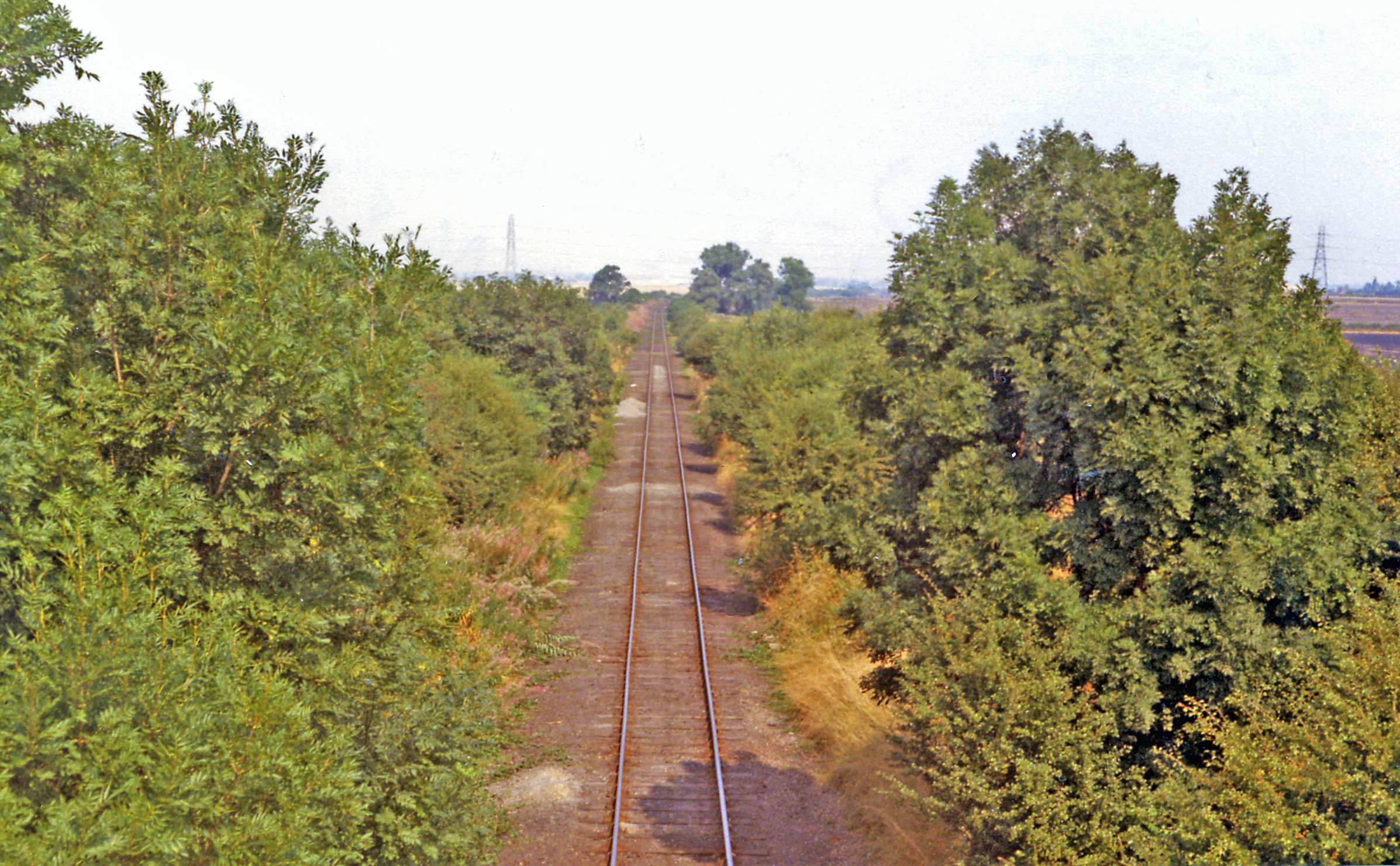 Site of Cotham station, 1983. View northward, towards Newark: ex-Great Northern Newark - Bottesford West Junction connecting line. The station was closed 11/9/39 (goods 3/2/64), but the line survived until 1/55 for passenger services, 4/87 for freight